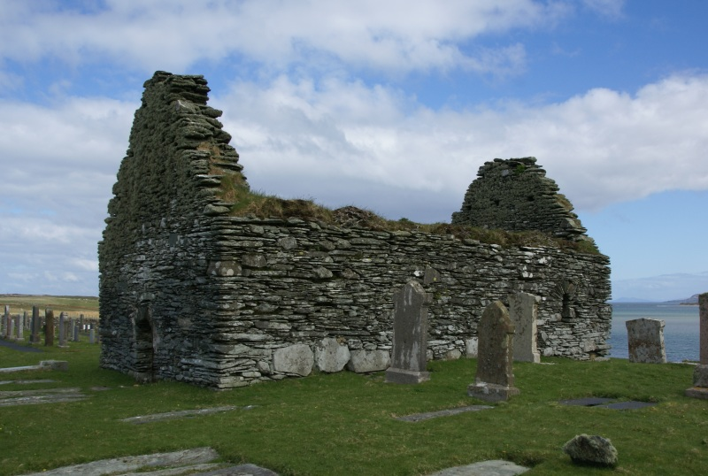 Kilnave Chapel, Islay, Argyll and Bute, Scotland. View from southwest.